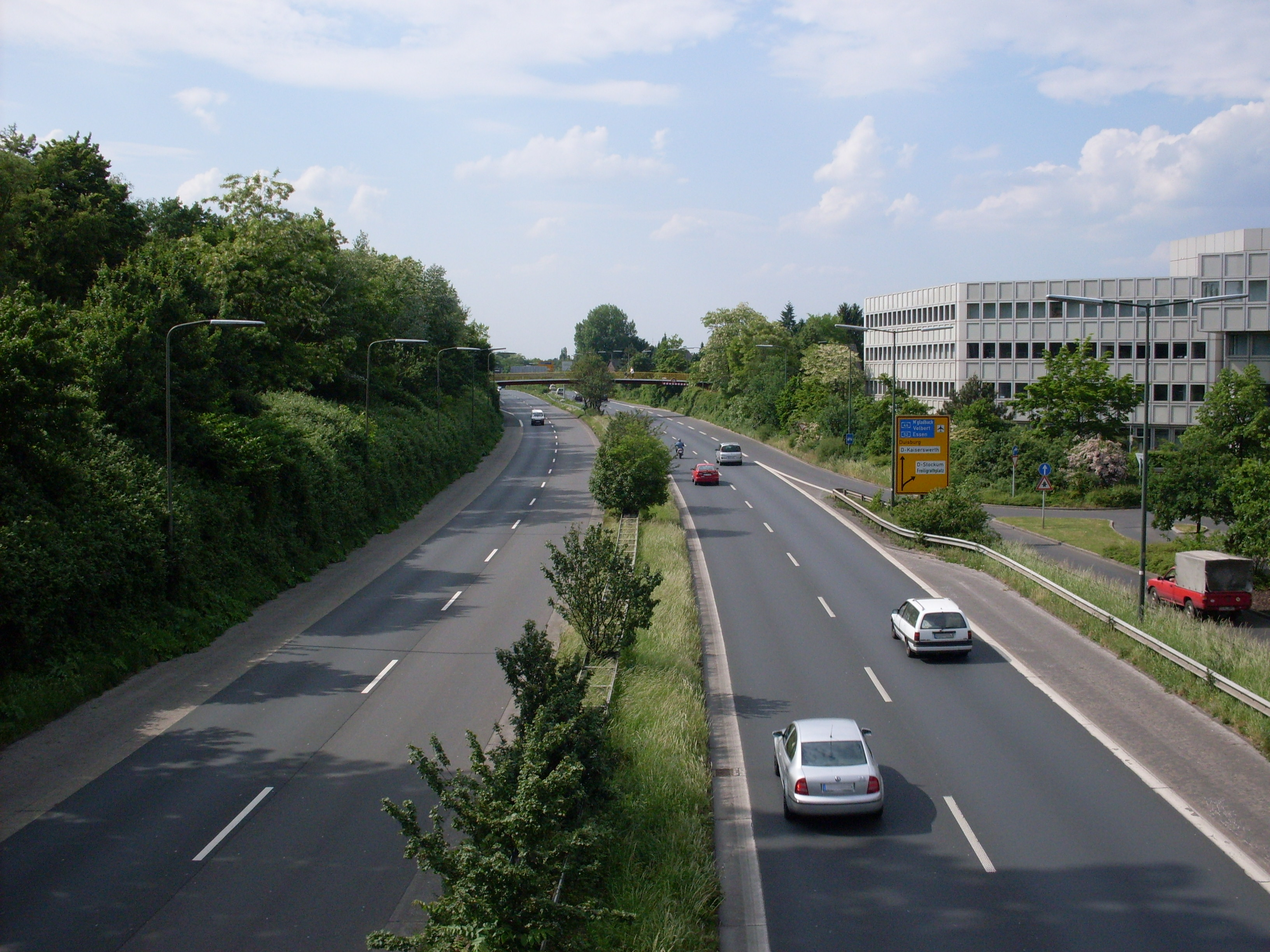 Duesseldorf, Danziger Strasse with Fashion House